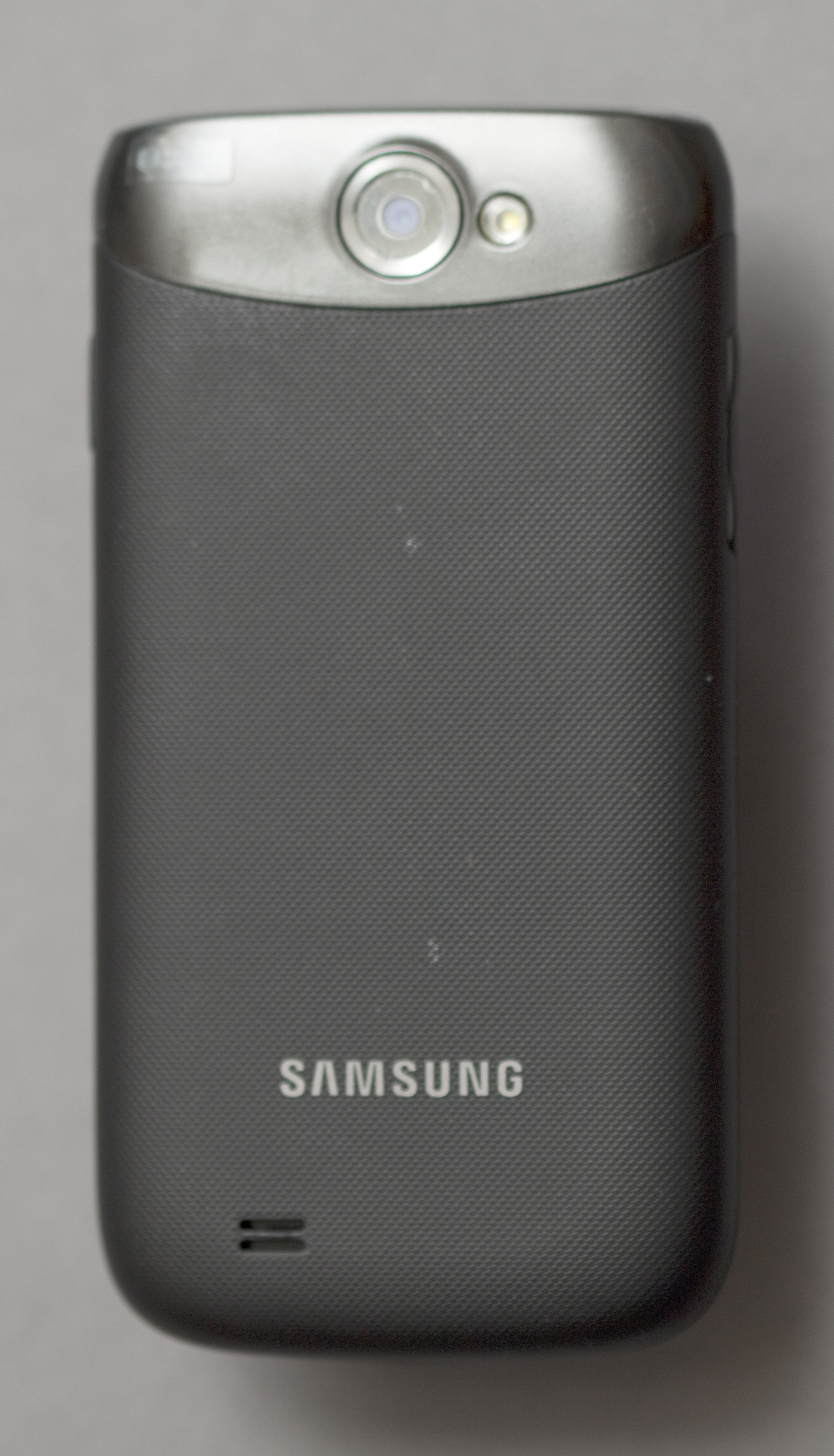 see filename. Taken with Canon EOS 500D + Canon f2.8/100mm macro